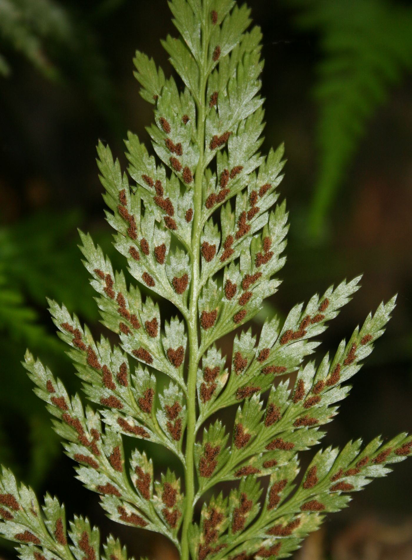 Asplenium onopteris, Streifenfarngewächse (Aspleniaceae) - Italien/Italia/Italy: Kalabrien/Calabria, Prov. Reggio Calabria, Aspromonte, SE Melia, ESE Scilla